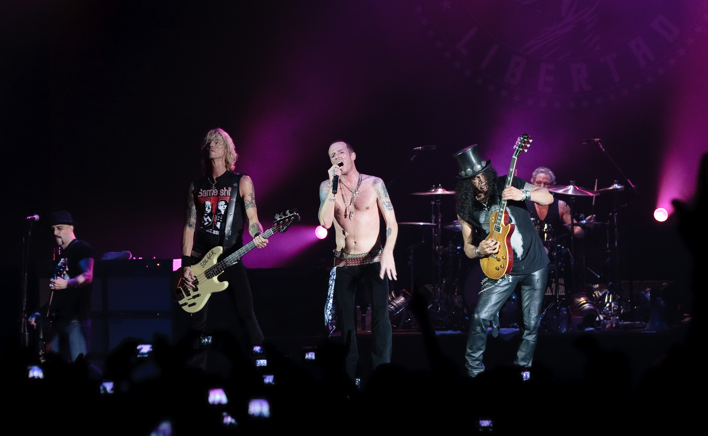 Velvet Revolver playing live